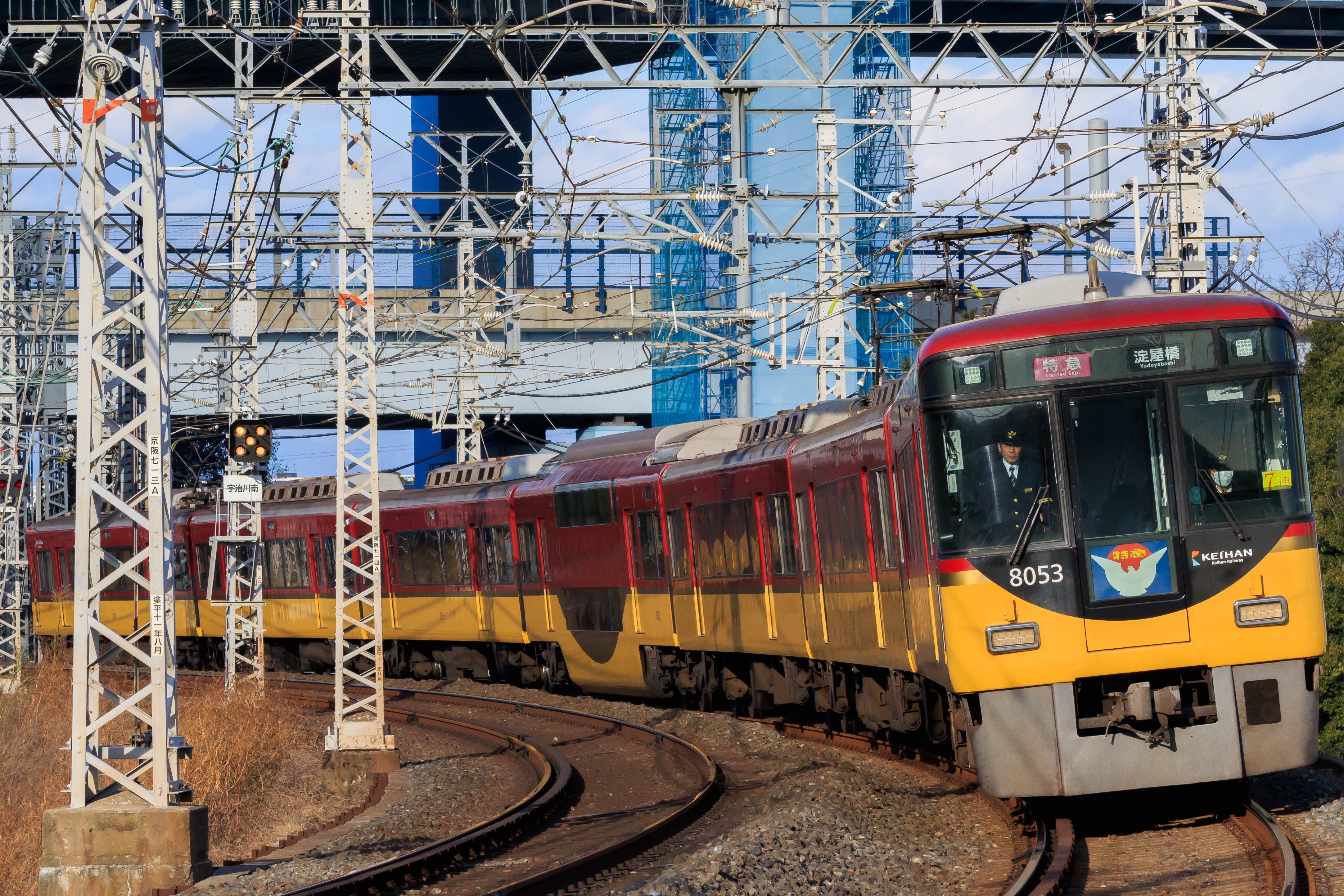 京阪特急8000系7連。 2017年 #元日 撮影。 Canon EOS 7D Mark II